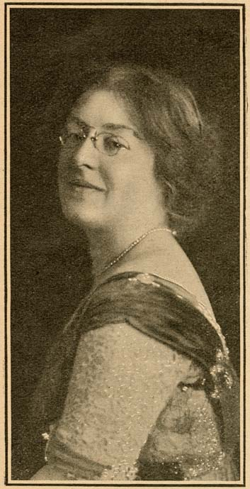 Portrait of Ethel Carrick Fox Image courtesy of State Library of Queensland.